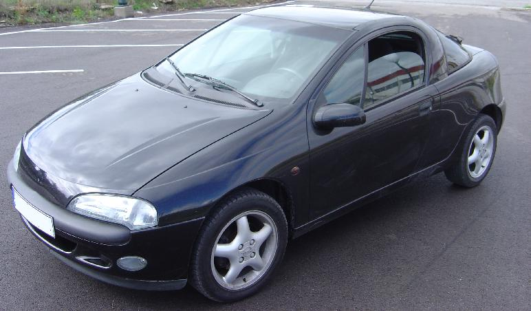 Opel Tigra face